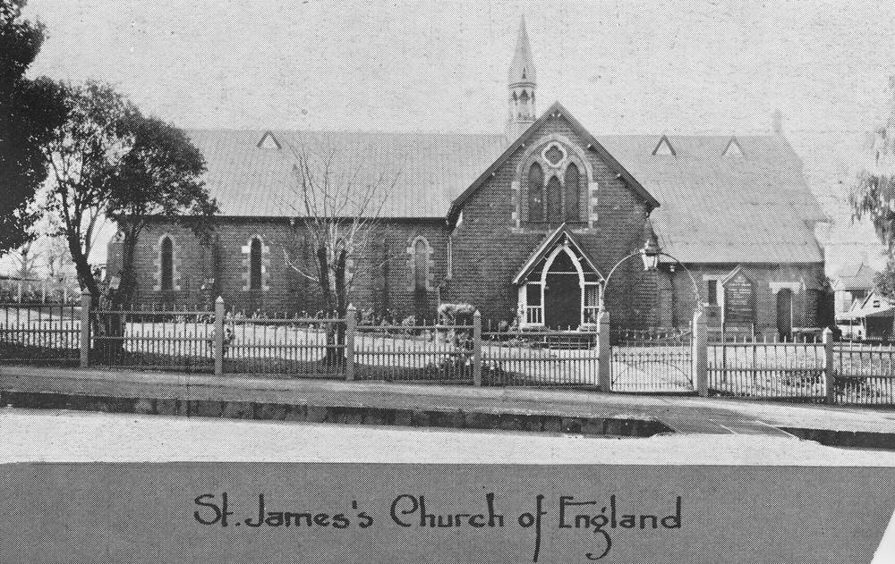 St. James Church of England Toowoomba 1932